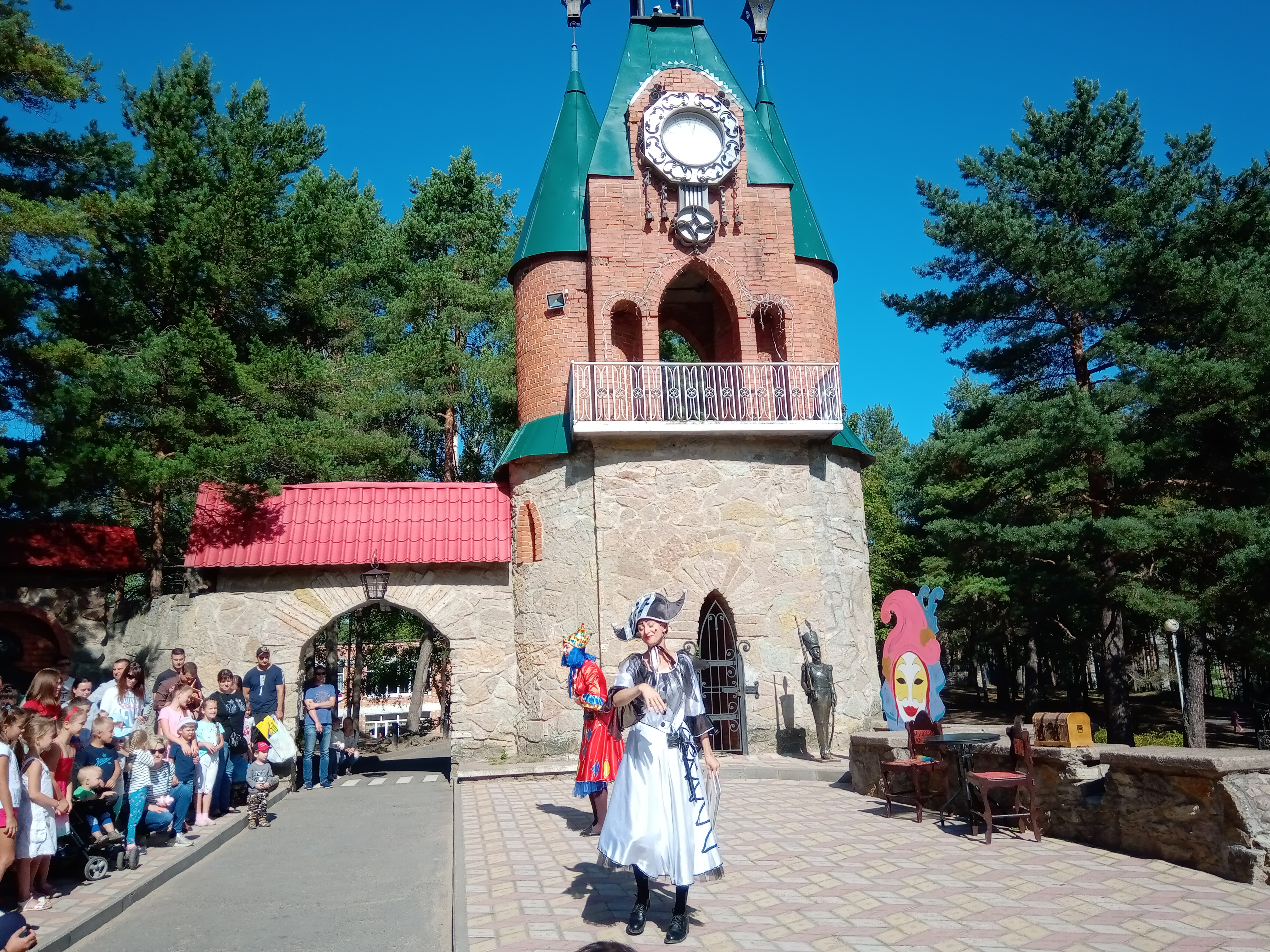 Andersengrad, Sosnovyj Bor